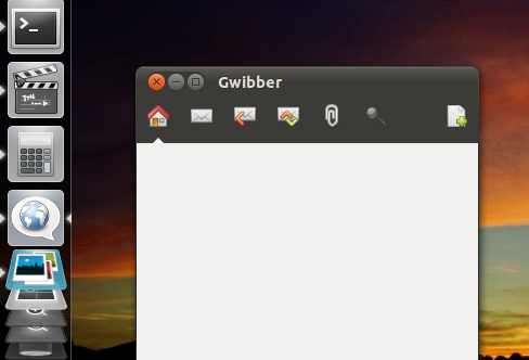 Example of an accordion interface. This is the “Launcher” of Unity user interface.